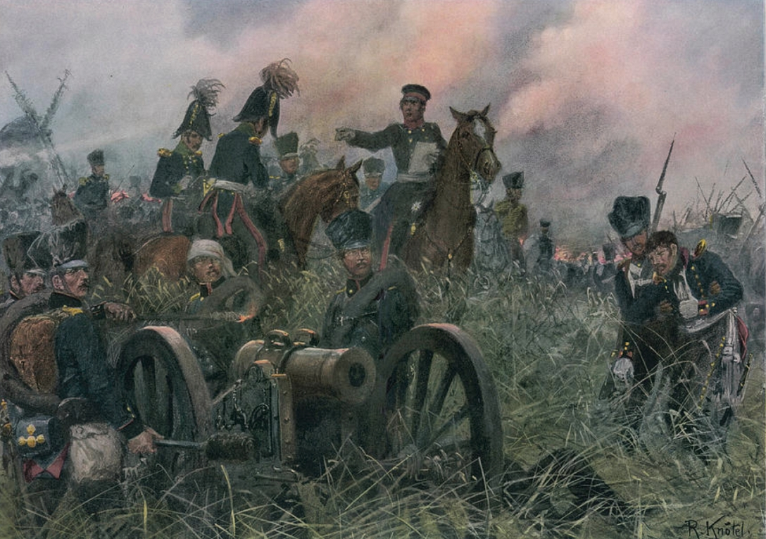 Lieutenant General Count von Gneisenau (the Chief of Staff of the Prussian Army) at the Battle of Ligny, on the heights near the Windmill of Bussy (which appears in the background).